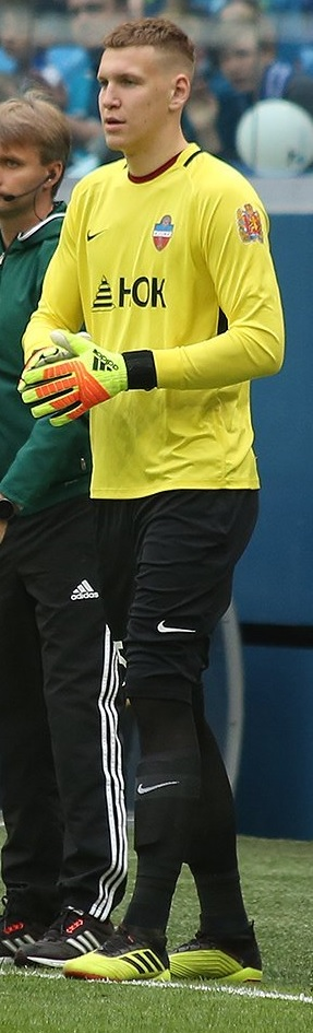 Maksim Yedapin with FC Yenisey Krasnoyarsk in a game against FC Zenit Saint Petersburg.